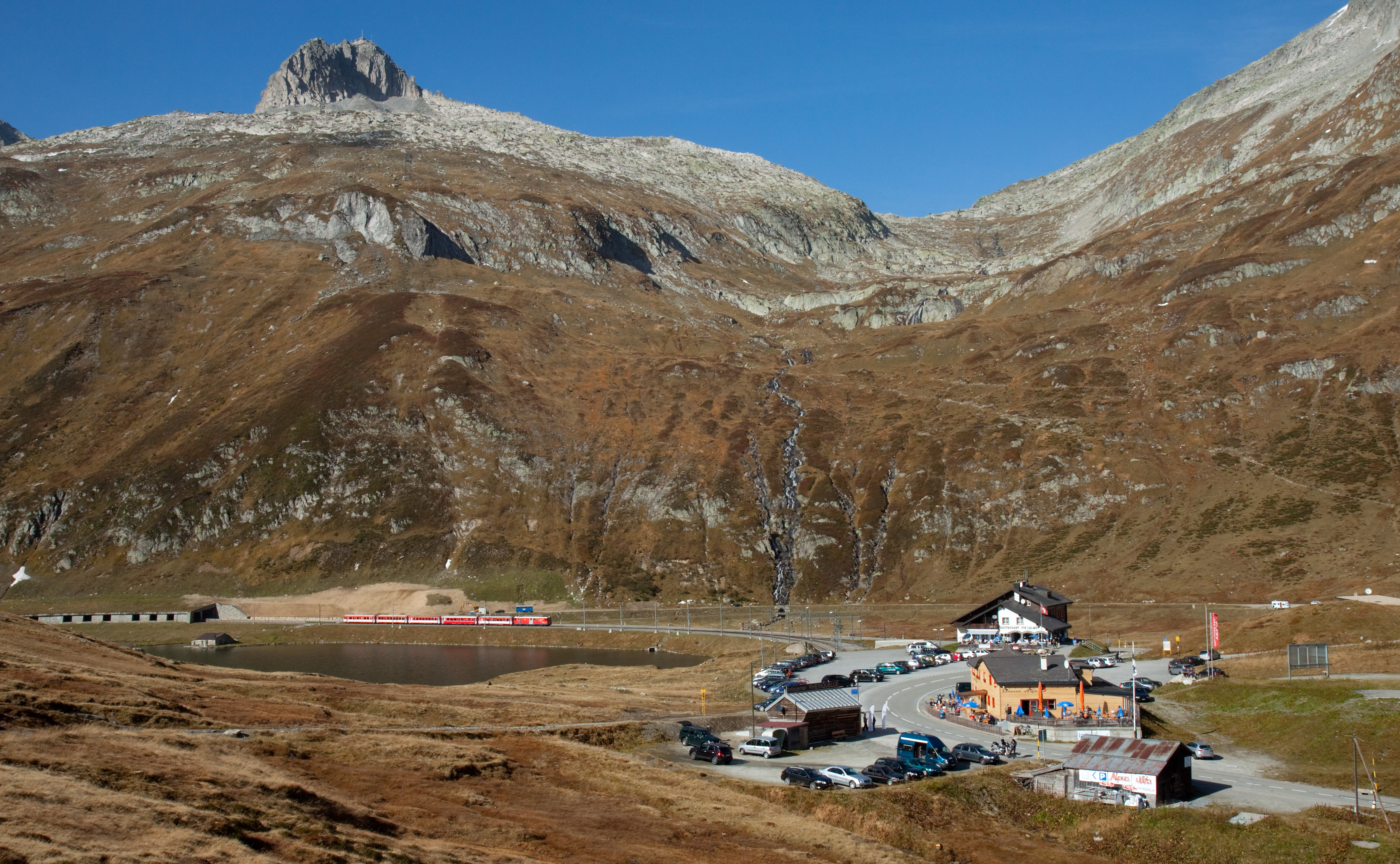 The Oberalp pass summit with the Oberalpsee to the left and some restaurants to the right. A Matterhorn–Gotthard-Bahn local train hauled by a Deh 4/4 motor luggage van of series 21–24 is just arriving at the Oberalppasshöhe station.